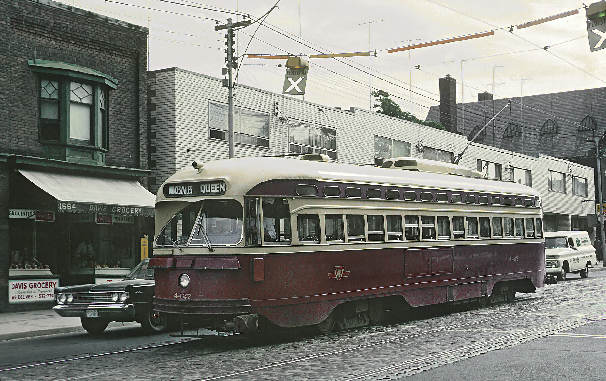 Roger Puta photograph